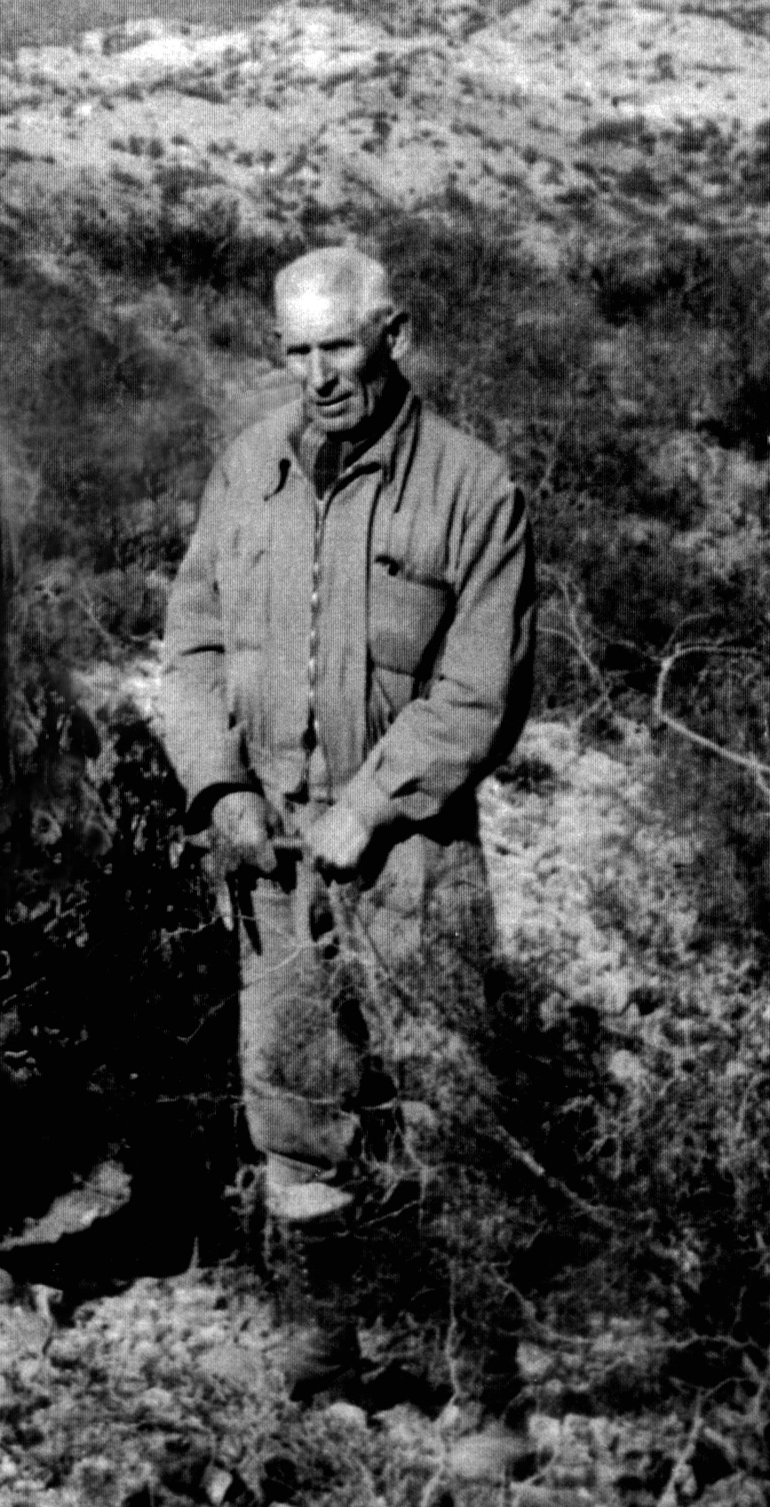 Manuel Tellechea, año 1945 aprox.